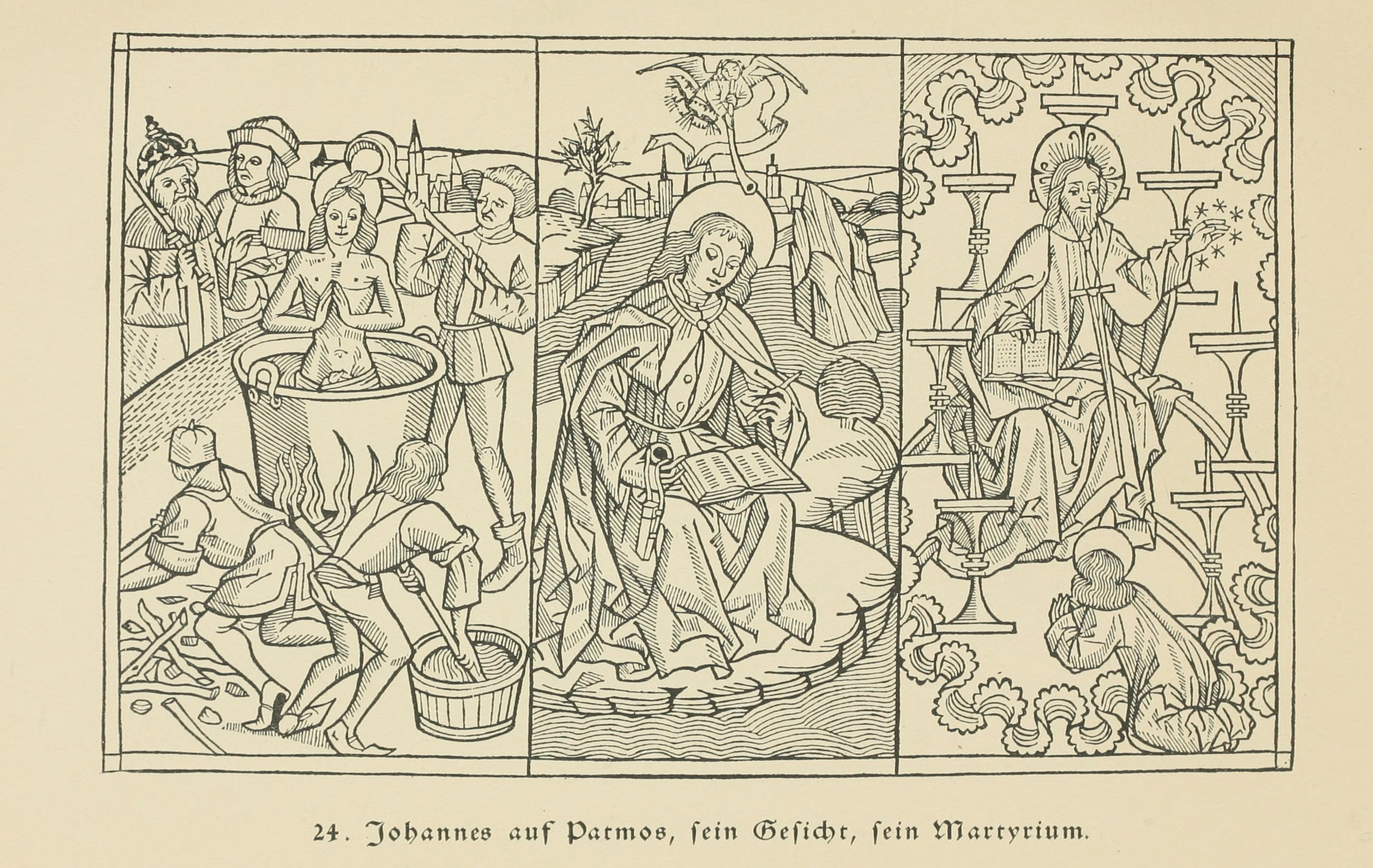 Woodcut from the Cologne Bible of 1479 representing the martyrdom of St. John, St. John at Patmos and St. John's vision of the Son of man among the golden candlesticks.